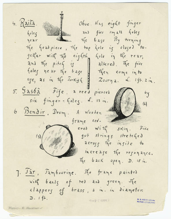 From Brown, Mary Elizabeth, Musical instruments and their homes (New York: Dodd, Mead, 1888)